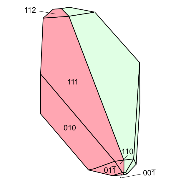 Drawing of a gartrellite twin; reference: W. Krause et al. (1998), European Journal of Mineralogy Vol. 10, page 18